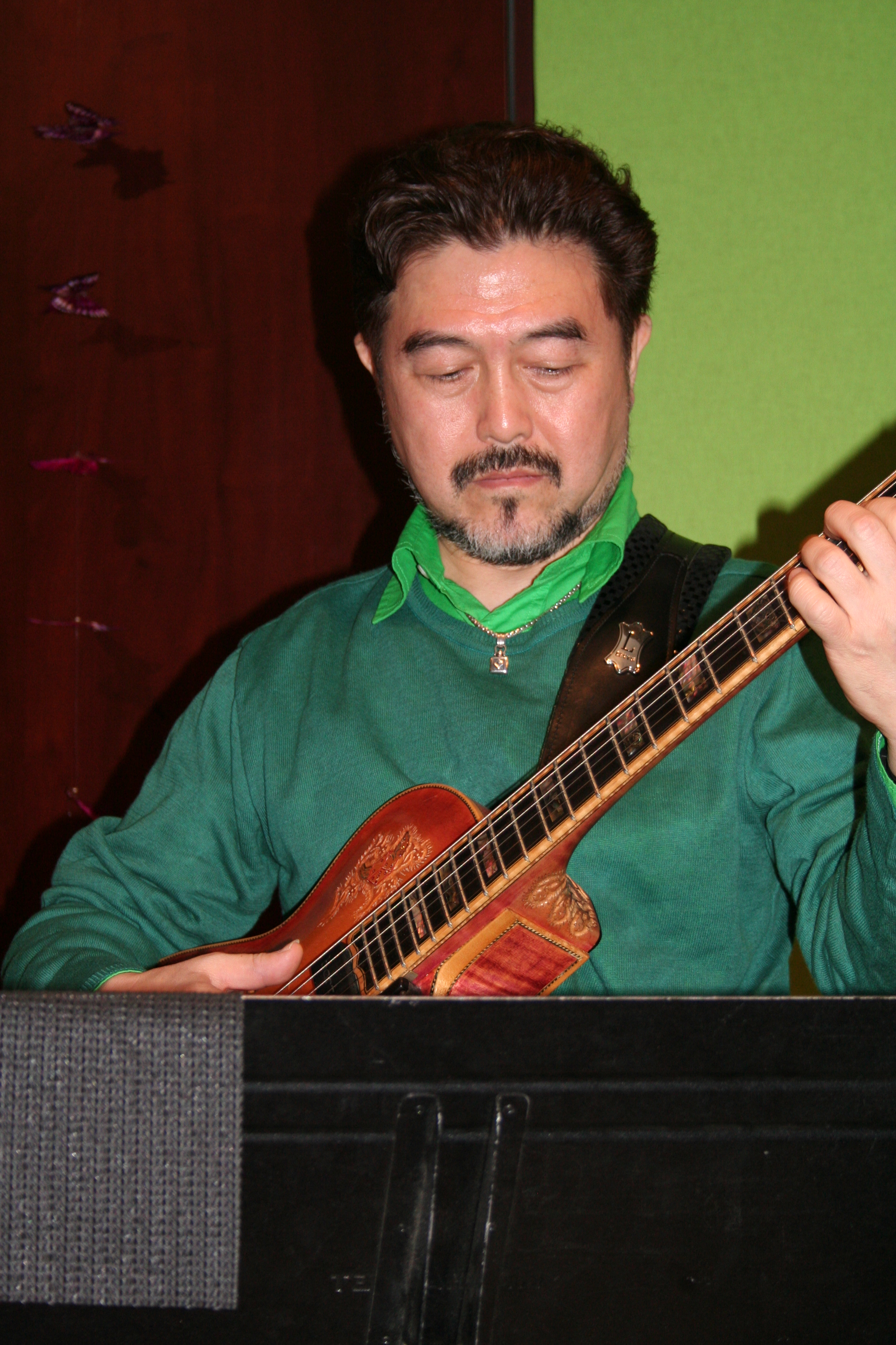 Show-case with Anne Ducros, Olivier Hutman and Kazumi Watanabe at Fnac Italie (Paris, France).